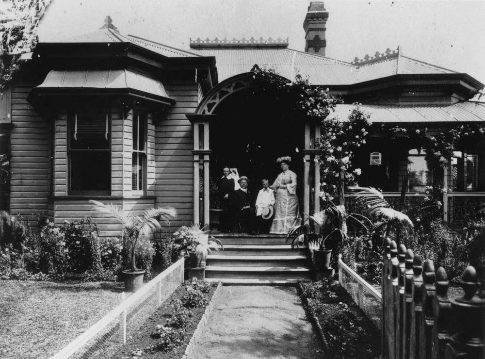 Wyembar in Cambell Street, Toowoomba, ca. 1905. Jack Rosser, his wife Margaret (nee Ross Mackenzie) with nephews Jack and Jim Folks, seated on the verandah of Wyembar. This residence was situated at 80 Campbell Street, Toowoomba. (Description supplied with photograph).